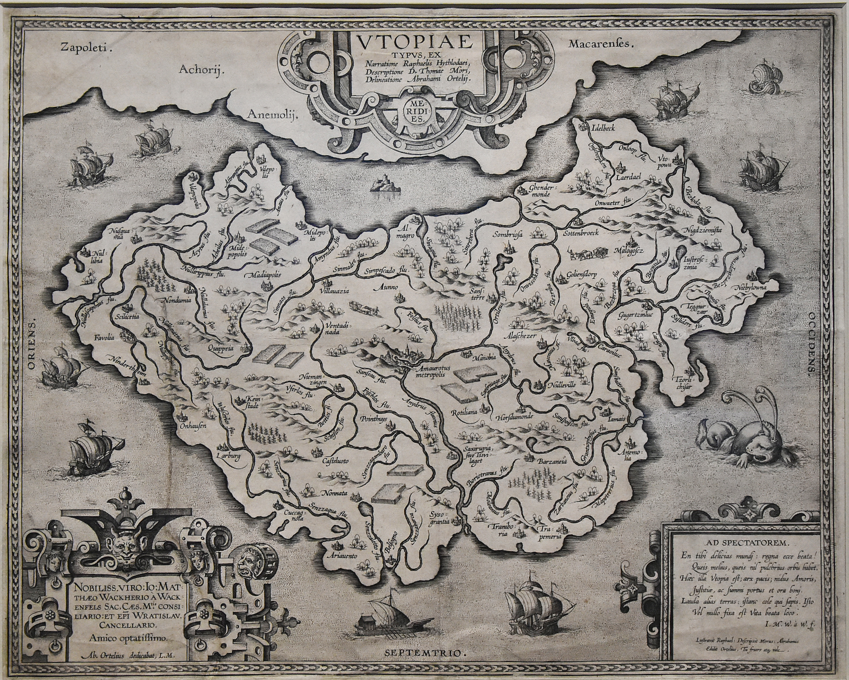 Map of Utopia (1595-1596) by Abraham Ortelius (1527-1598) - King Baudouin Foundation